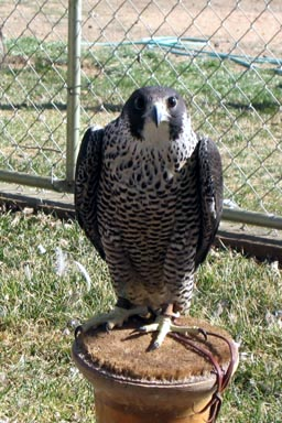 A captive Peregrine Falcon of the subspecies F. pealei